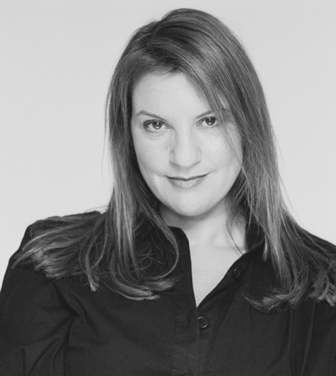 Photo of Susan Jane Gilman